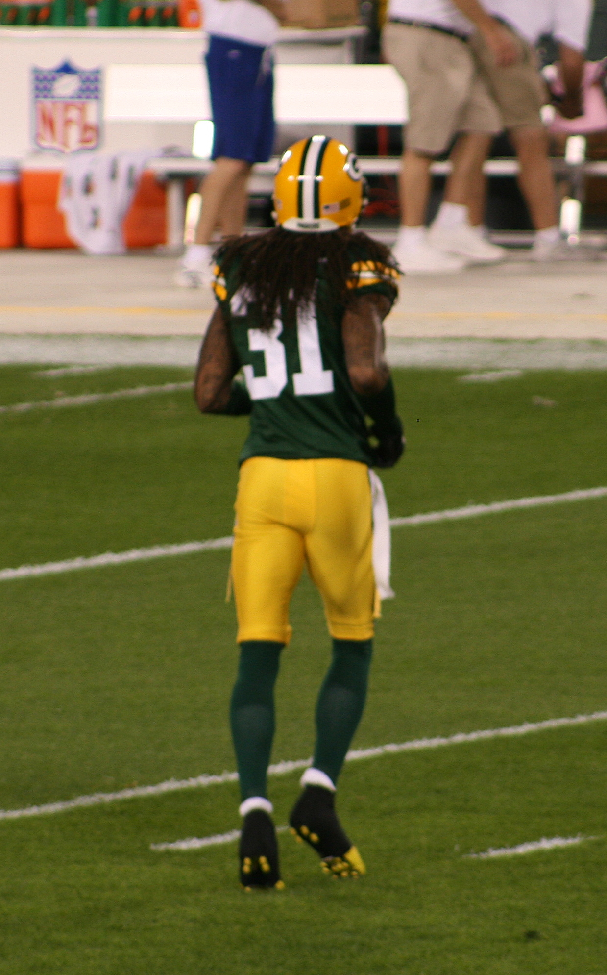 Al Harris warming up before a game.